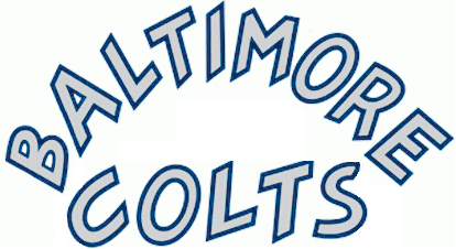 Baltimore Colts, now the Indianapolis Colts, old wordmark used from 1953 until 1960.